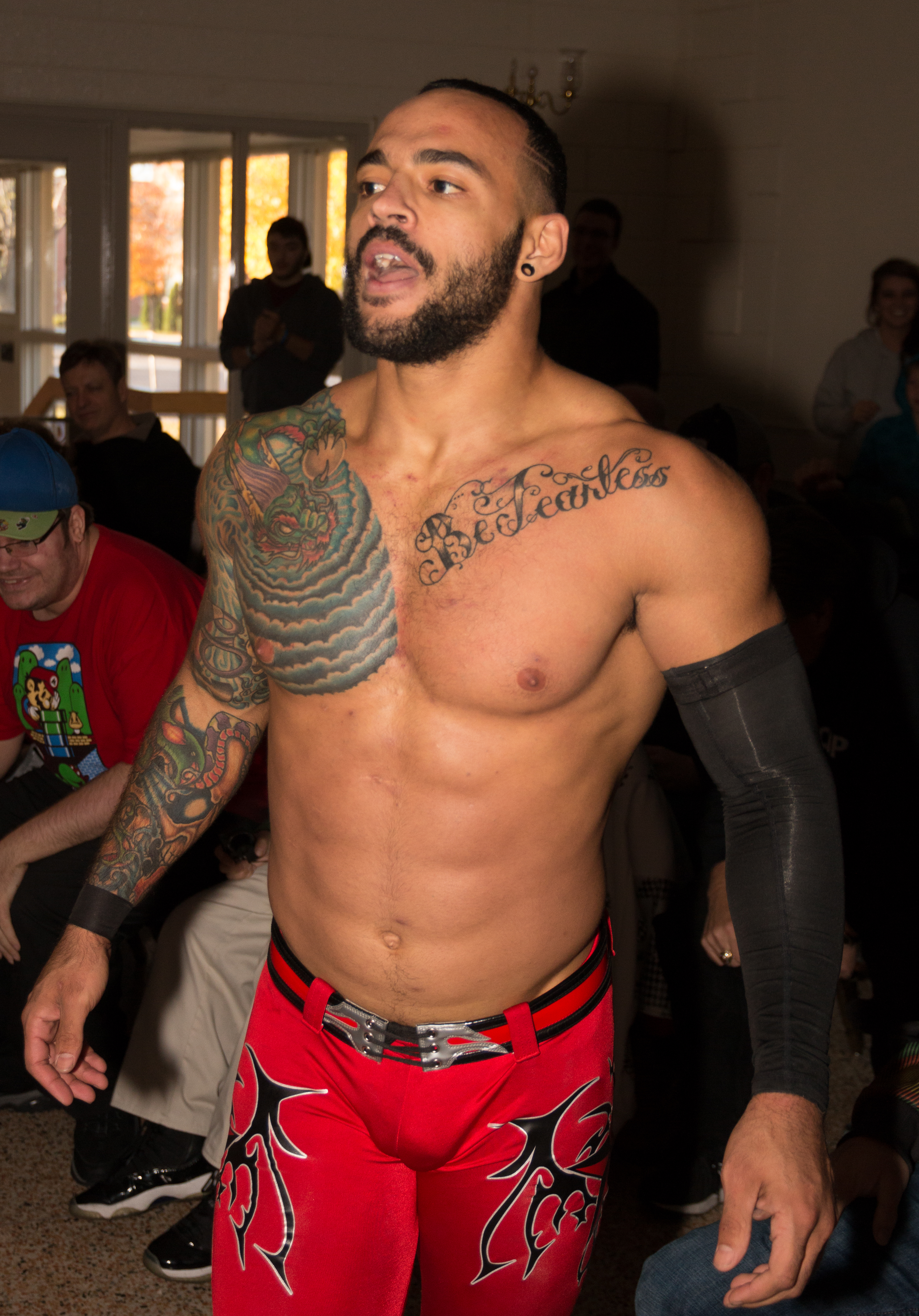 Independent wrestler Ricochet at Alpha 1's Final Act 5 Season Finale show